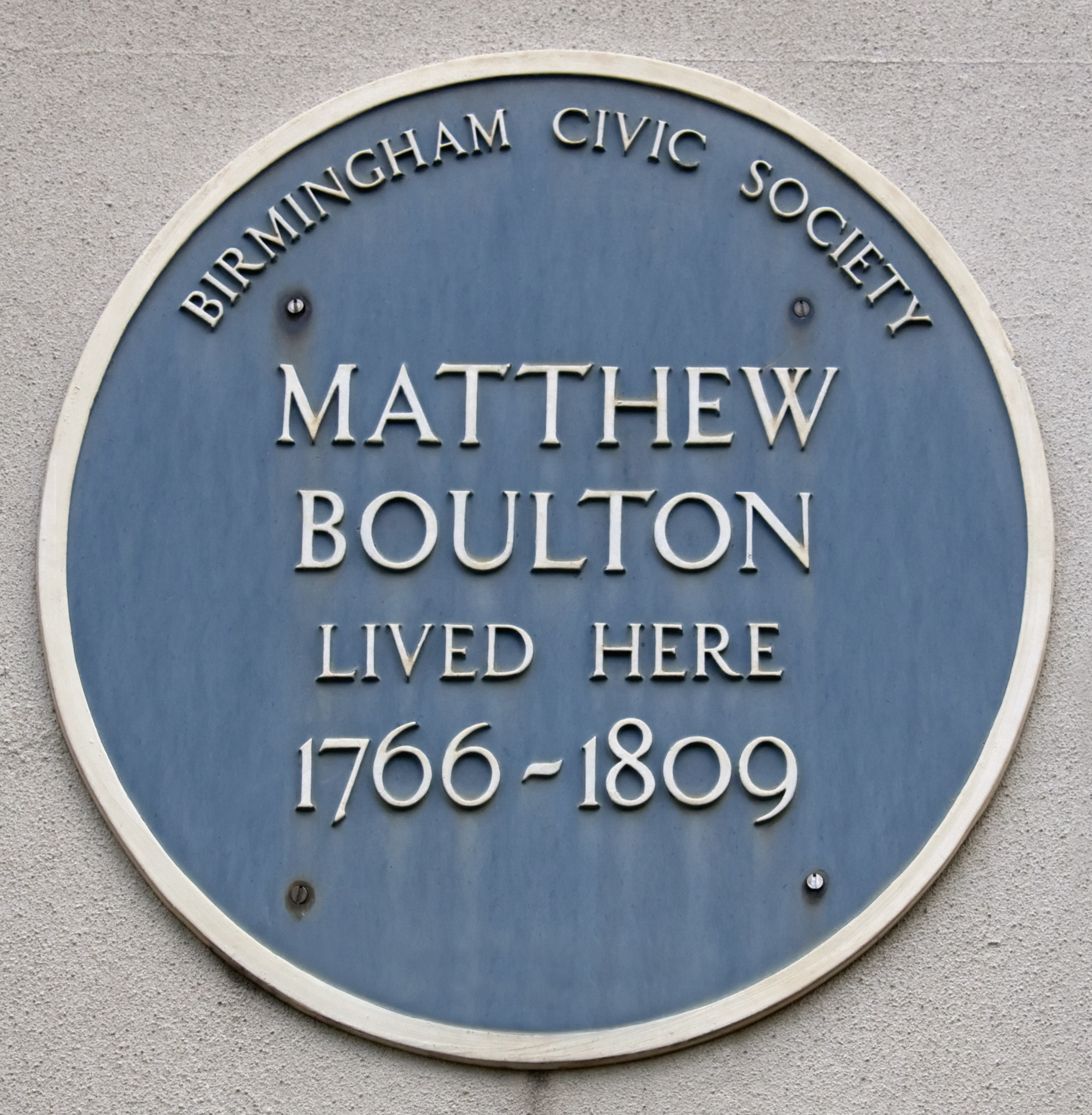 The blue plaque on Soho House, Handsworth, Birmingham, England. Soho House is not only important as Matthew Boultons house but it was also the meeting place for the Lunar society. Some of the thinkers and inventors included James Watt, Erasmus Darwin, Josiah Wedgwood and Joseph Priestley